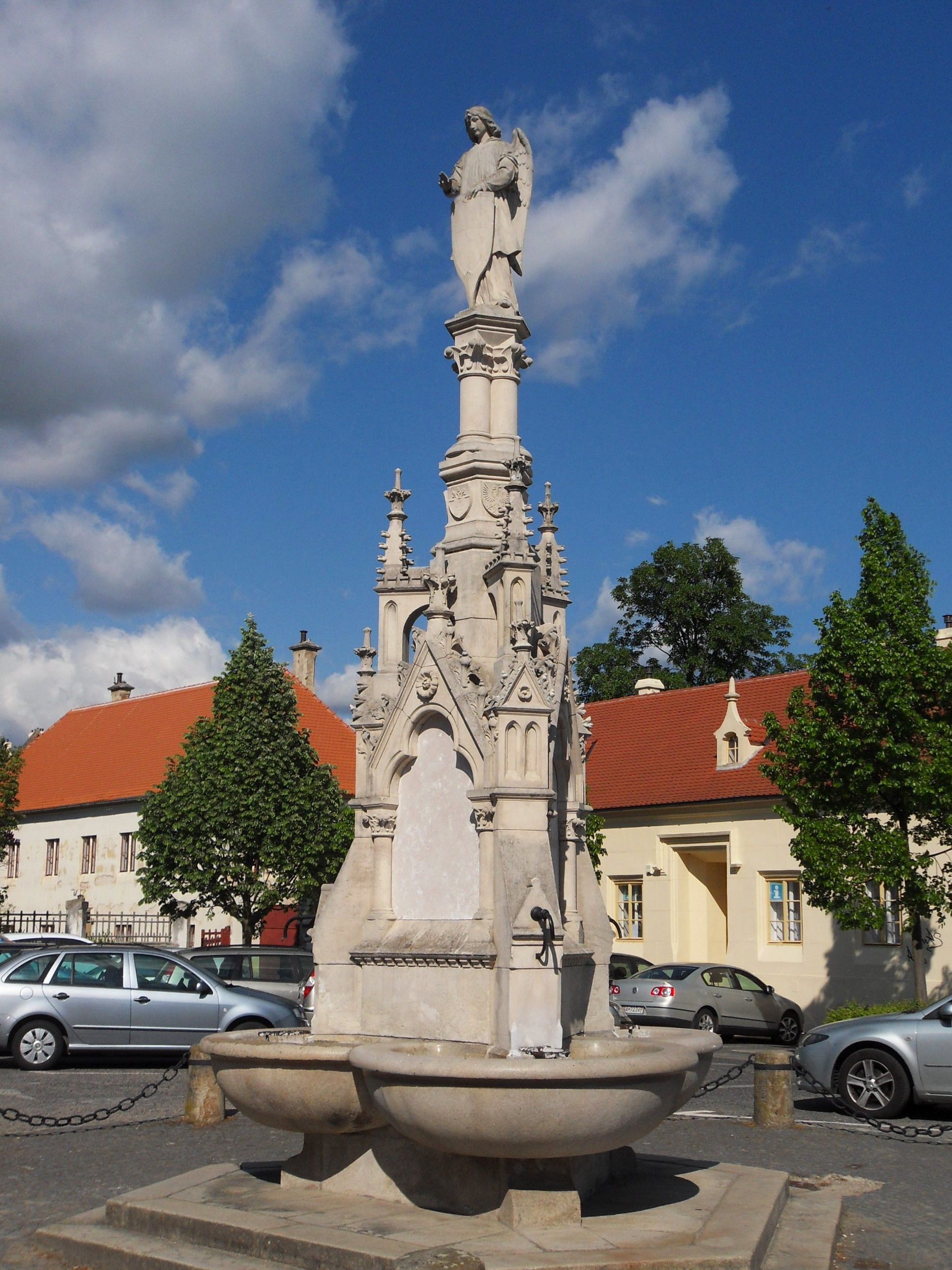 Fountain at Zámecké náměstí, Lednice, Břeclav district, Czech Republic